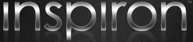 Inspiron Logo